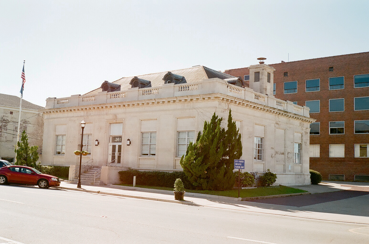 This is the Federal Building, located in Ruston, LA, USA. This image was taken on January 18, 2013, using Fuji 200 ASA color print film and a Sears/Ricoh 35rf rangefinder camera with a 40mm lens.